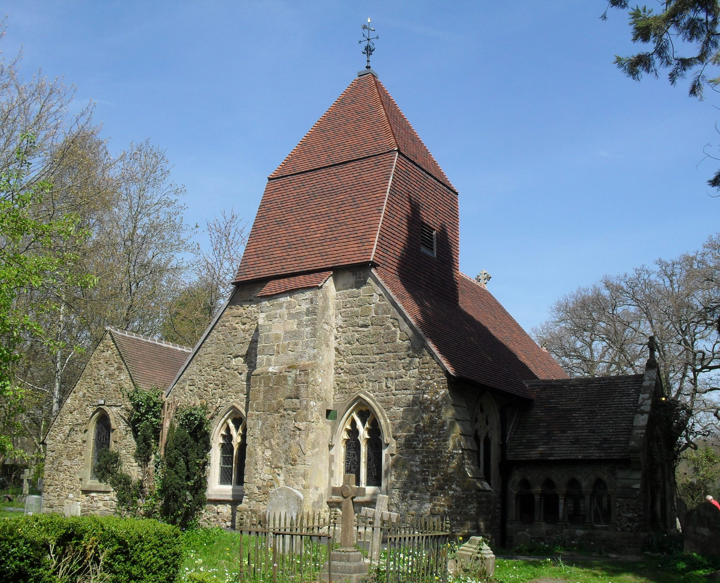 St Leonard's Church (Church-in-the-Wood), Church in the Wood Lane, Hollington, Hastings, East Sussex, England. A restored 13th-century Anglican church in the middle of a wood and nature reserve in the Hollington area of Hastings. Listed at Grade II by English Heritage (Heritage Gateway Code 293741)